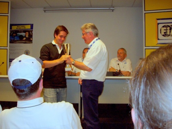 EPSA 2007 Price